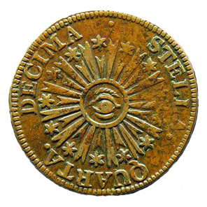 Photograph showing the reverse of Vermont copper coin of 1785. Department of the Treasury, United States Mint.